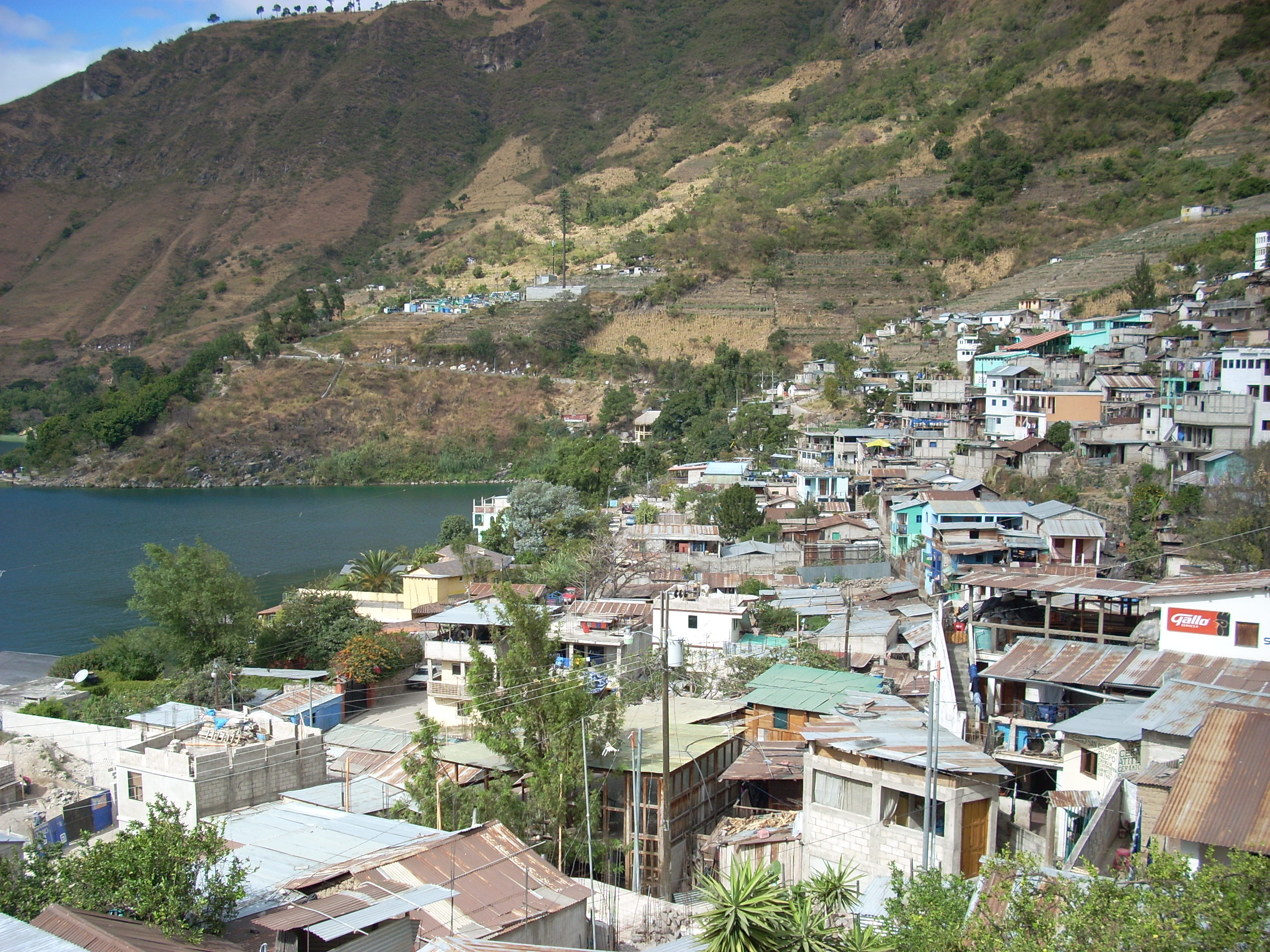 View of San Antonio Palopó, in the Sololá department of Guatemala.